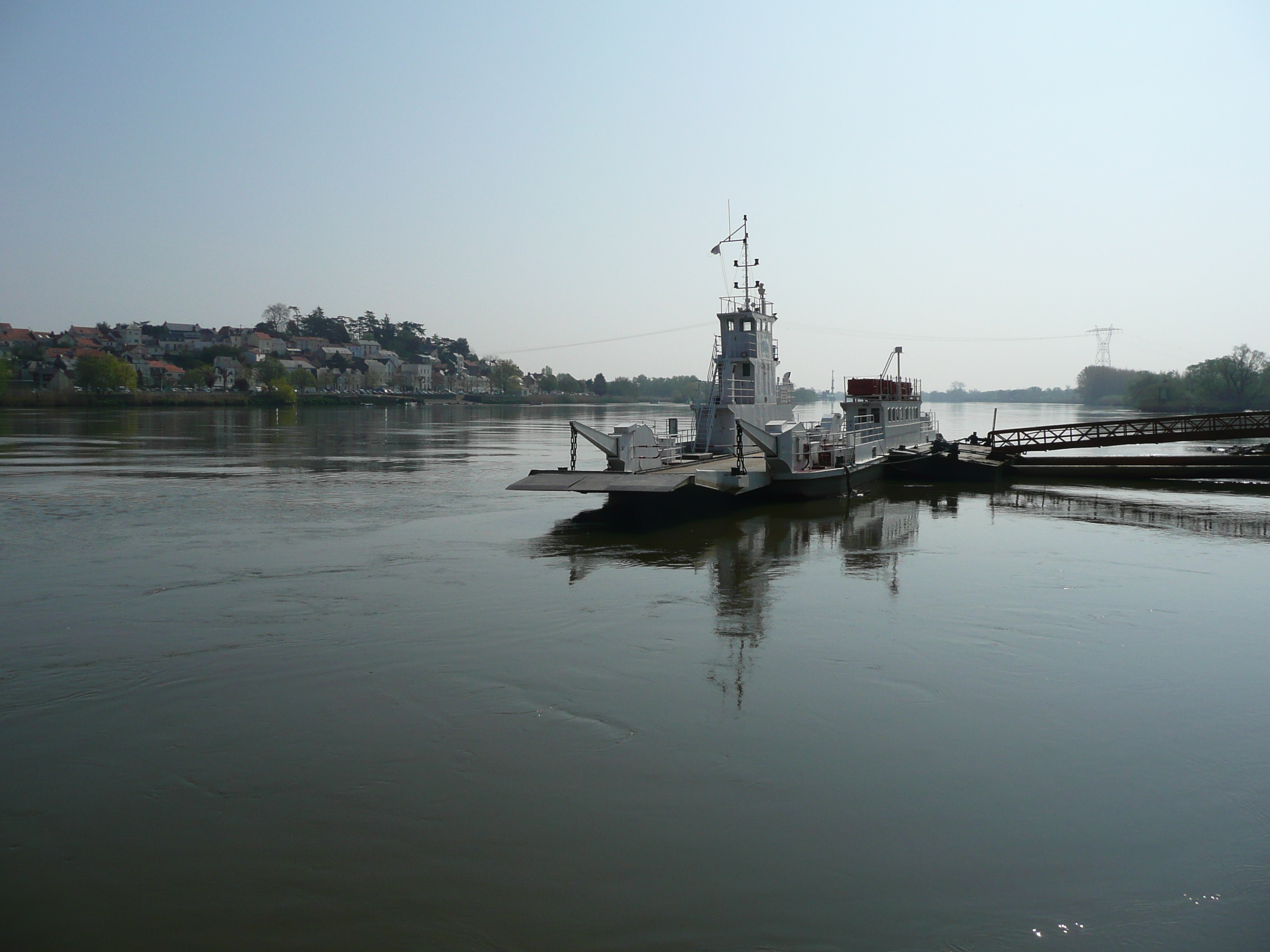 River ferry "François II" between Basse-Indre and Indret